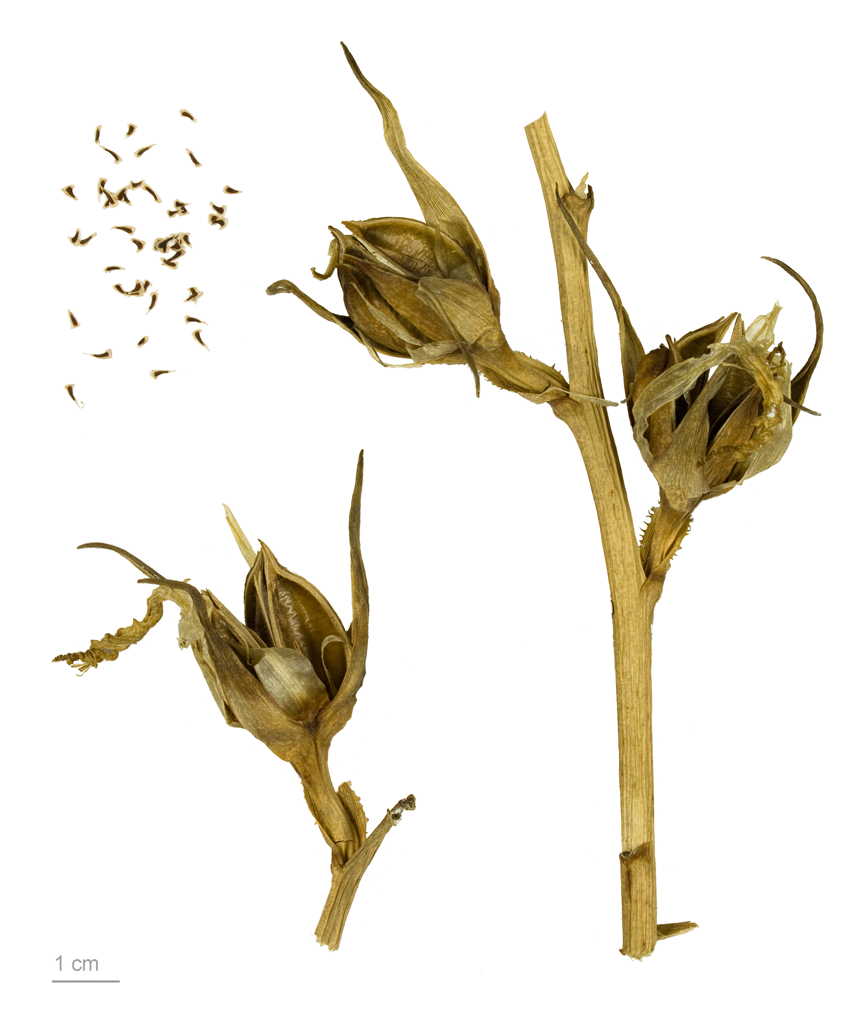 Agave attenuata , fruits and seeds